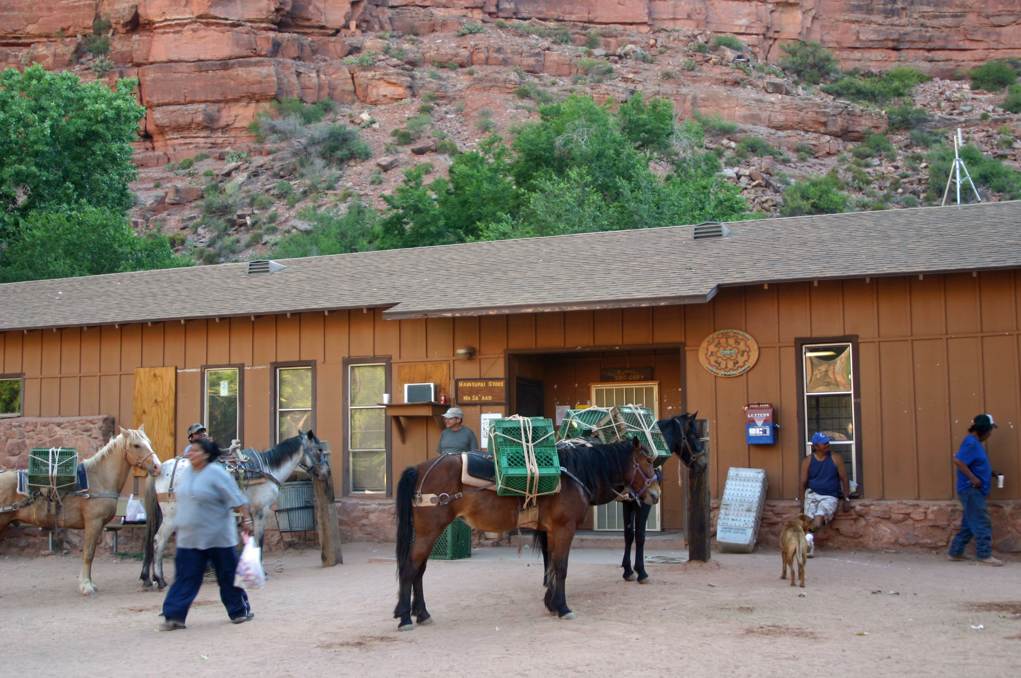 Mules loading up at the general store in Supai